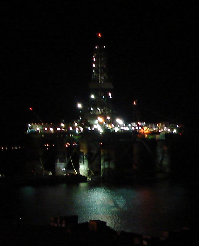 personal photograph, picture of unknown oil platform in mortier bay, marystown newfoundland